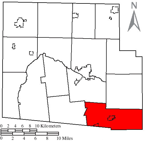 Made by the US Census and modified by myself to highlight the township